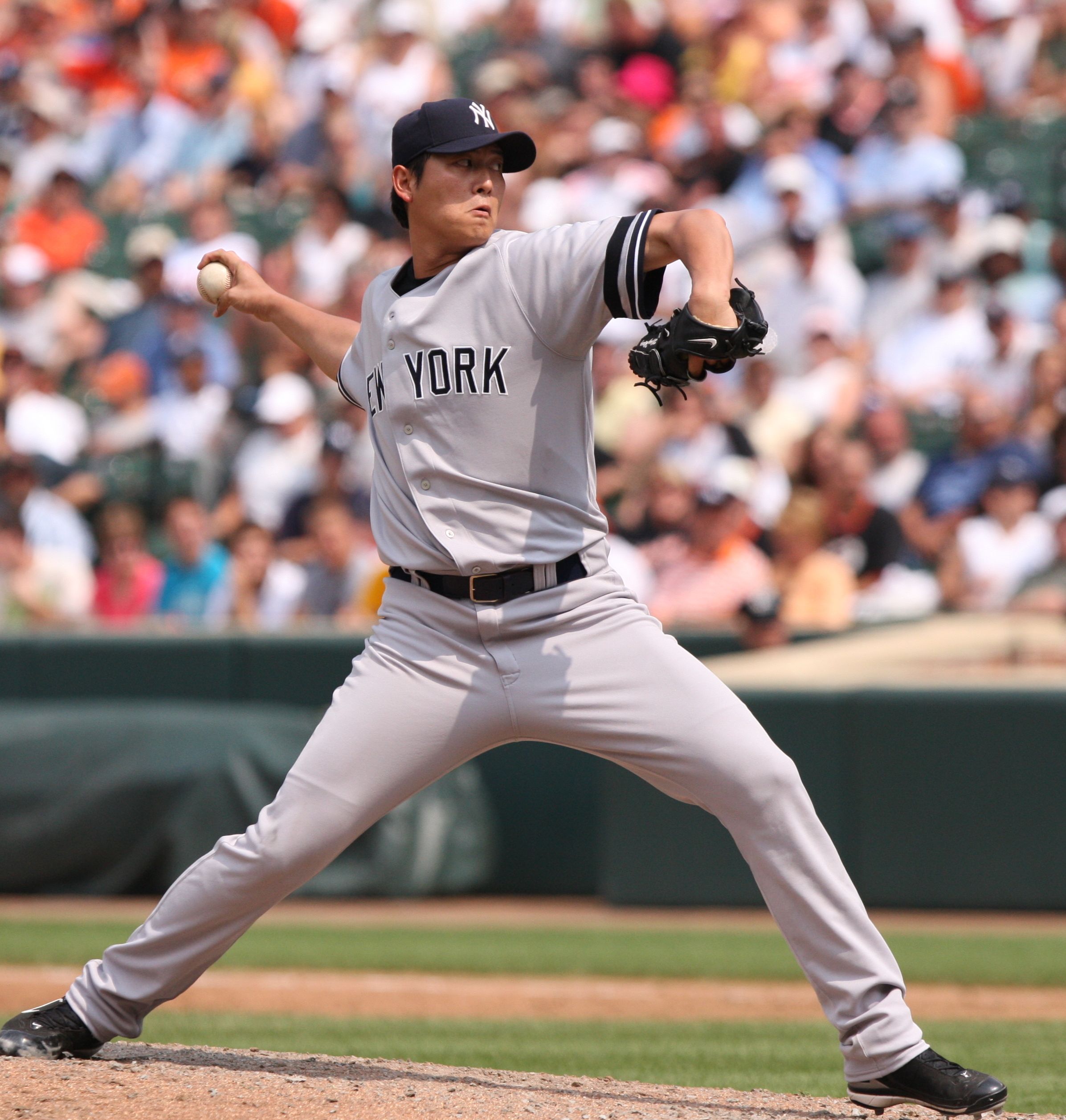 New York Yankees Chien-Ming Wang pitches against the Baltimore Orioles, Sunday July 29, 2007 at Camden Yards in Baltimore. His record improved to 12-5 with the 10 to 6 win.